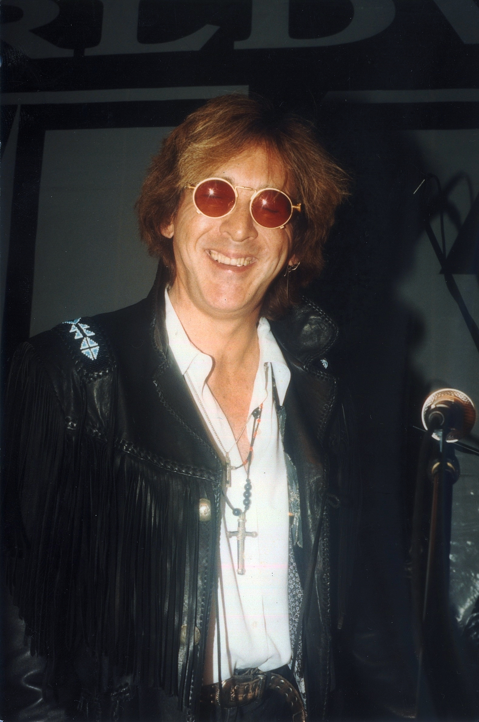 Peter Criss of the band KISS (sans makeup)